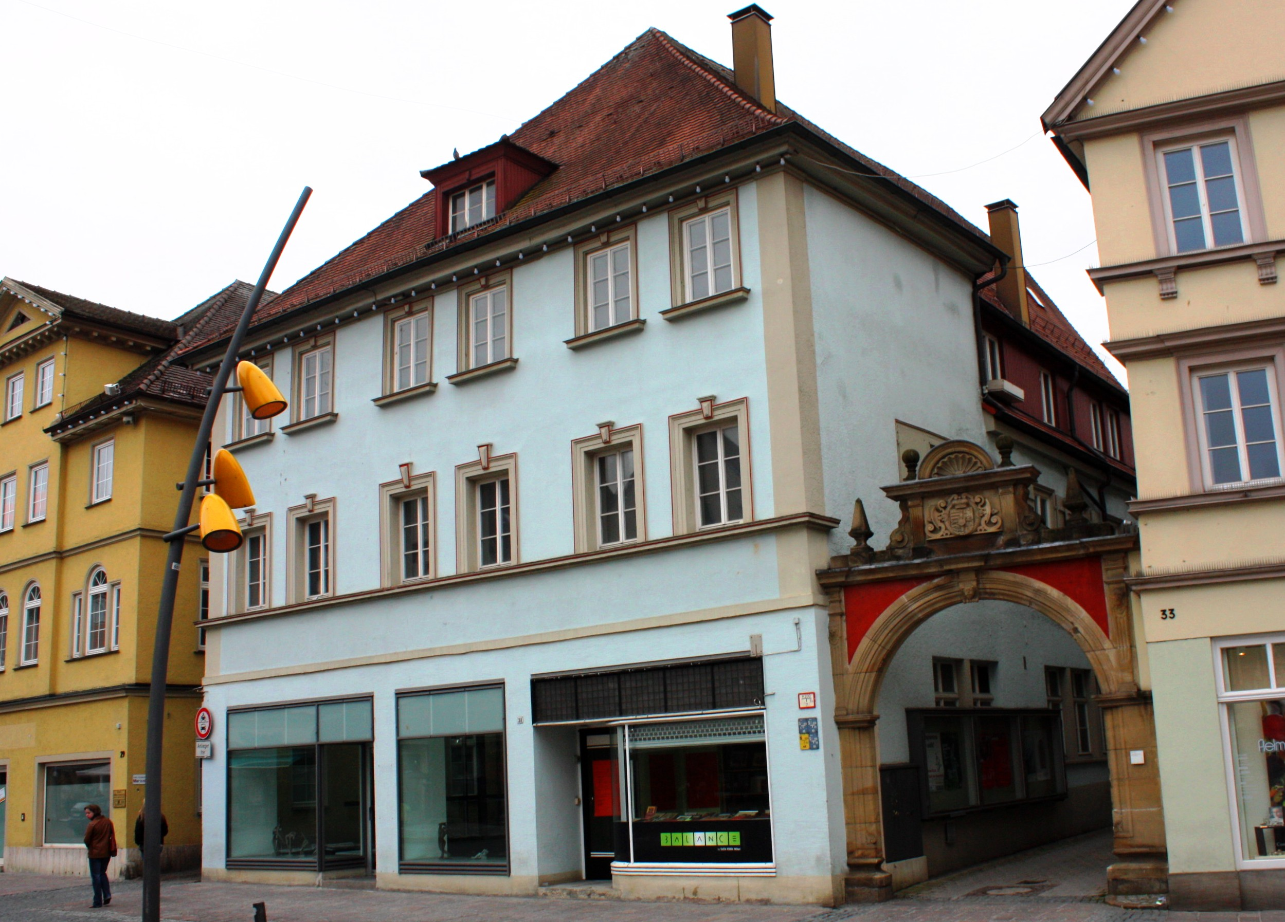 Marktplatz 31 Schwaebisch Gmuend